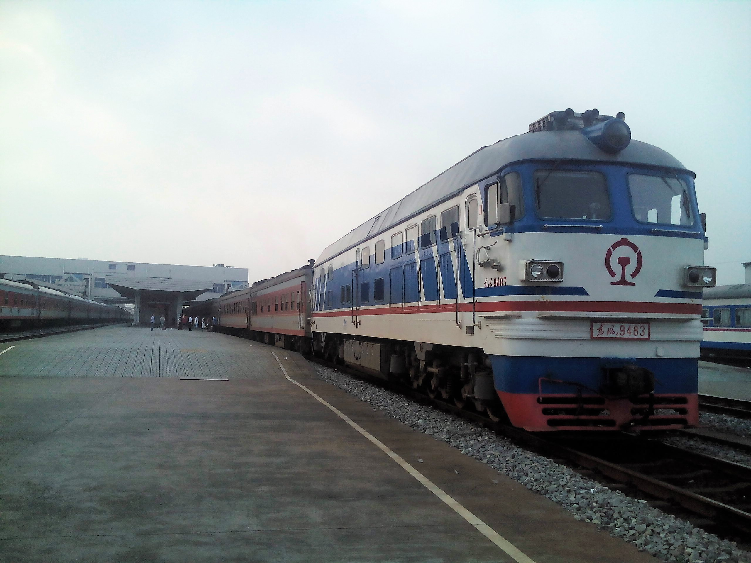 201508 DF4B-9483 hauls K2906 at Wenzhou Station